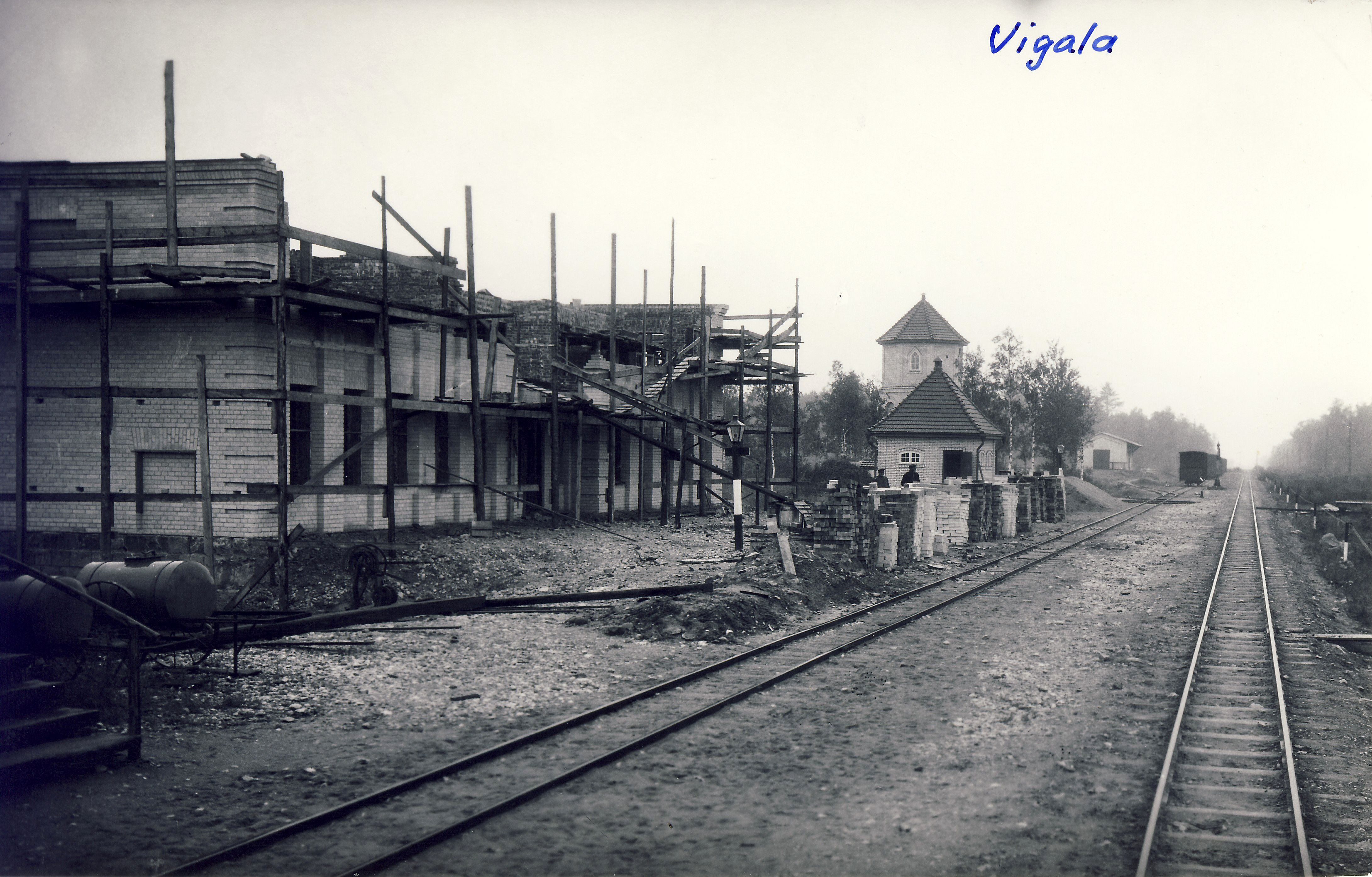 Vigala station in 1930